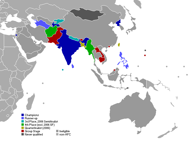 AFC Challenge Cup countries best results